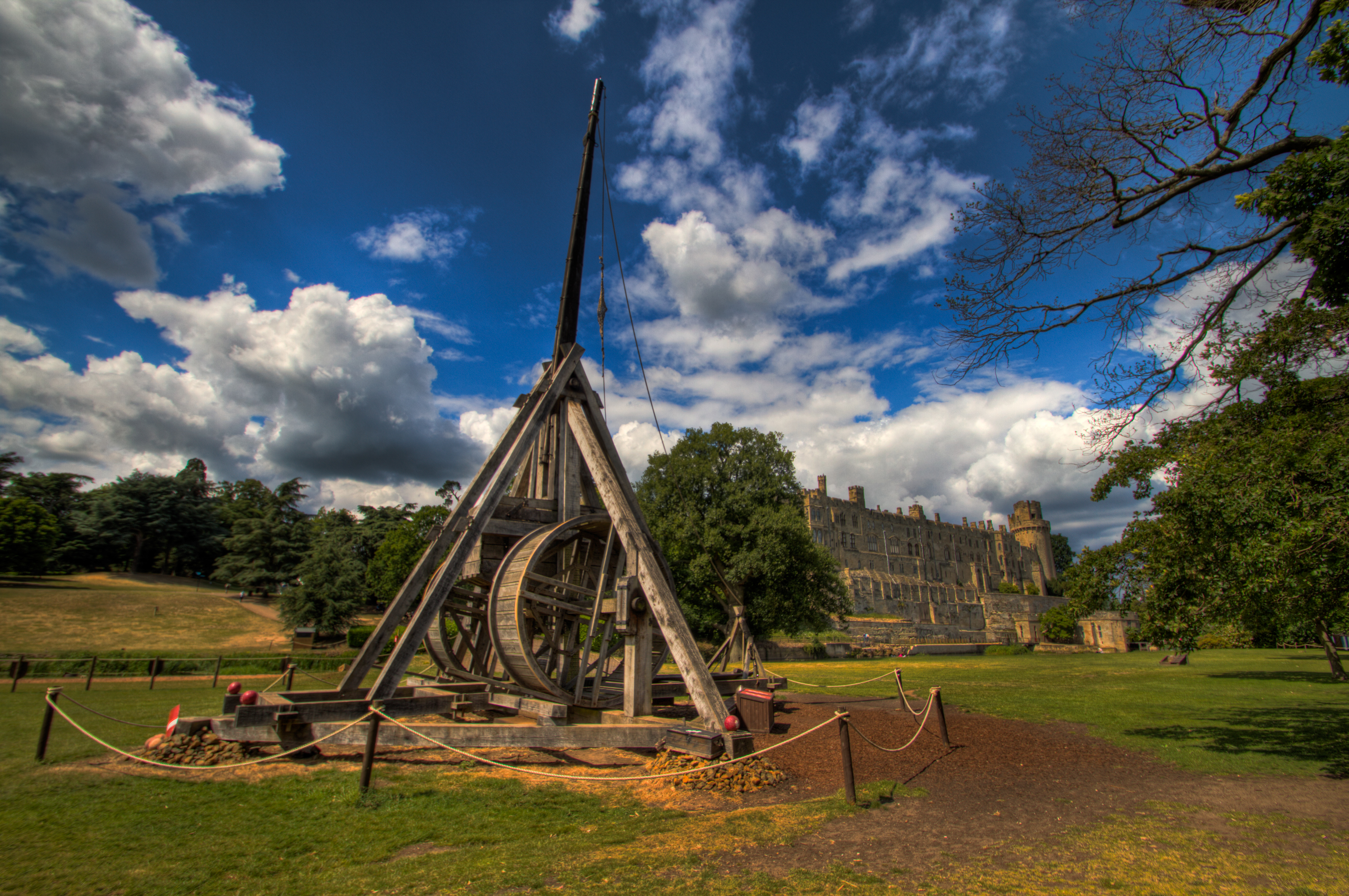 Reconstructed trebuchet at Warwick Castle